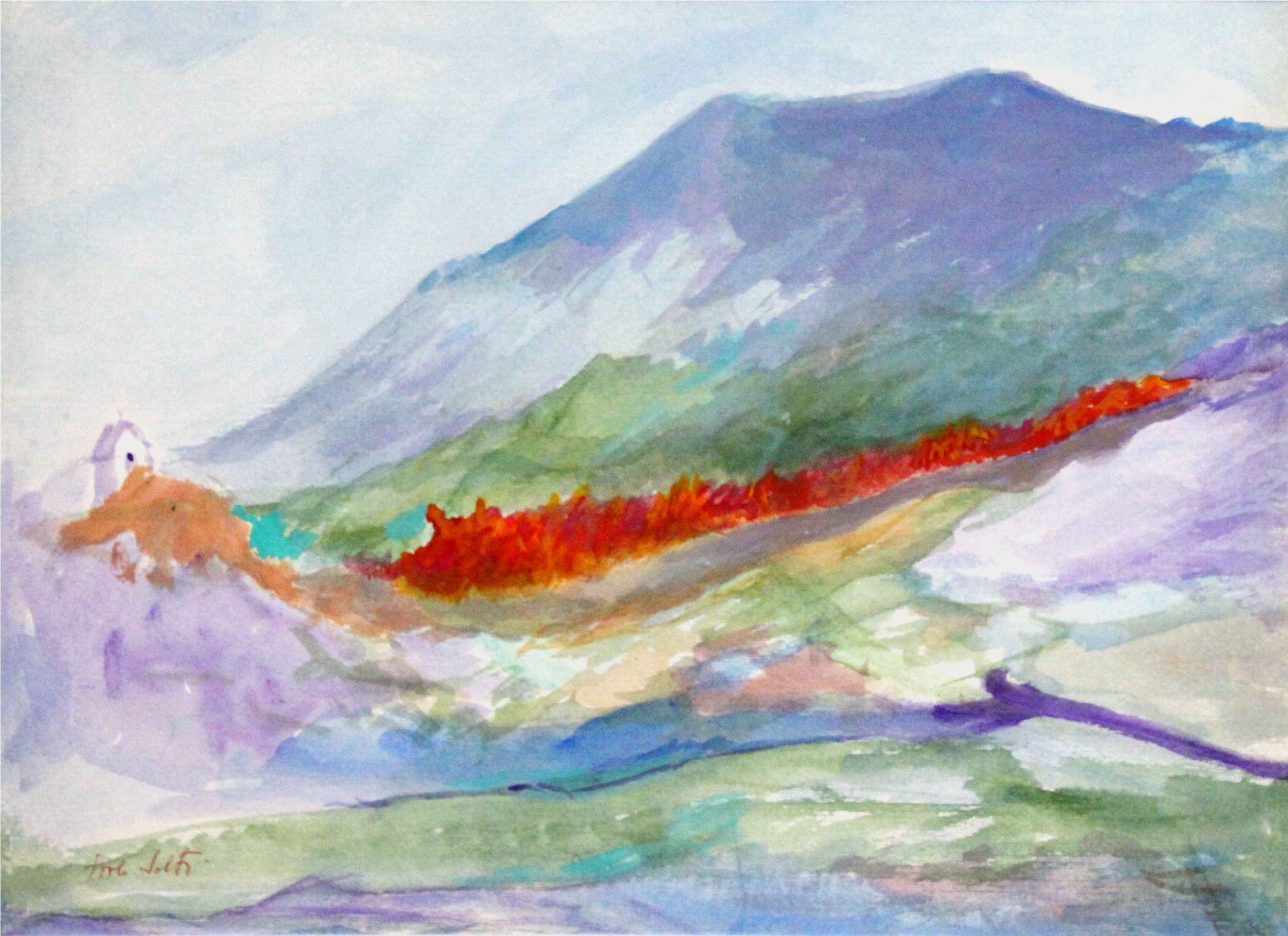 Invented Landscape, subject figment of the imagination, a work created by Cav. Maestro Paolo Salvati, Italian Expressionist painter, already awarded 13 December 2005 with the title of Distinguished Citizen of the Lazio Region, resolution 1103 published on 30 January 2006 on the official bulletin. On 27 December 2012 on a proposal from the Presidency of the Council of Ministers was awarded the honorary badge of rank of Knight of the Order of Merit of the Italian Republic for artistic merit, decorated 324601.